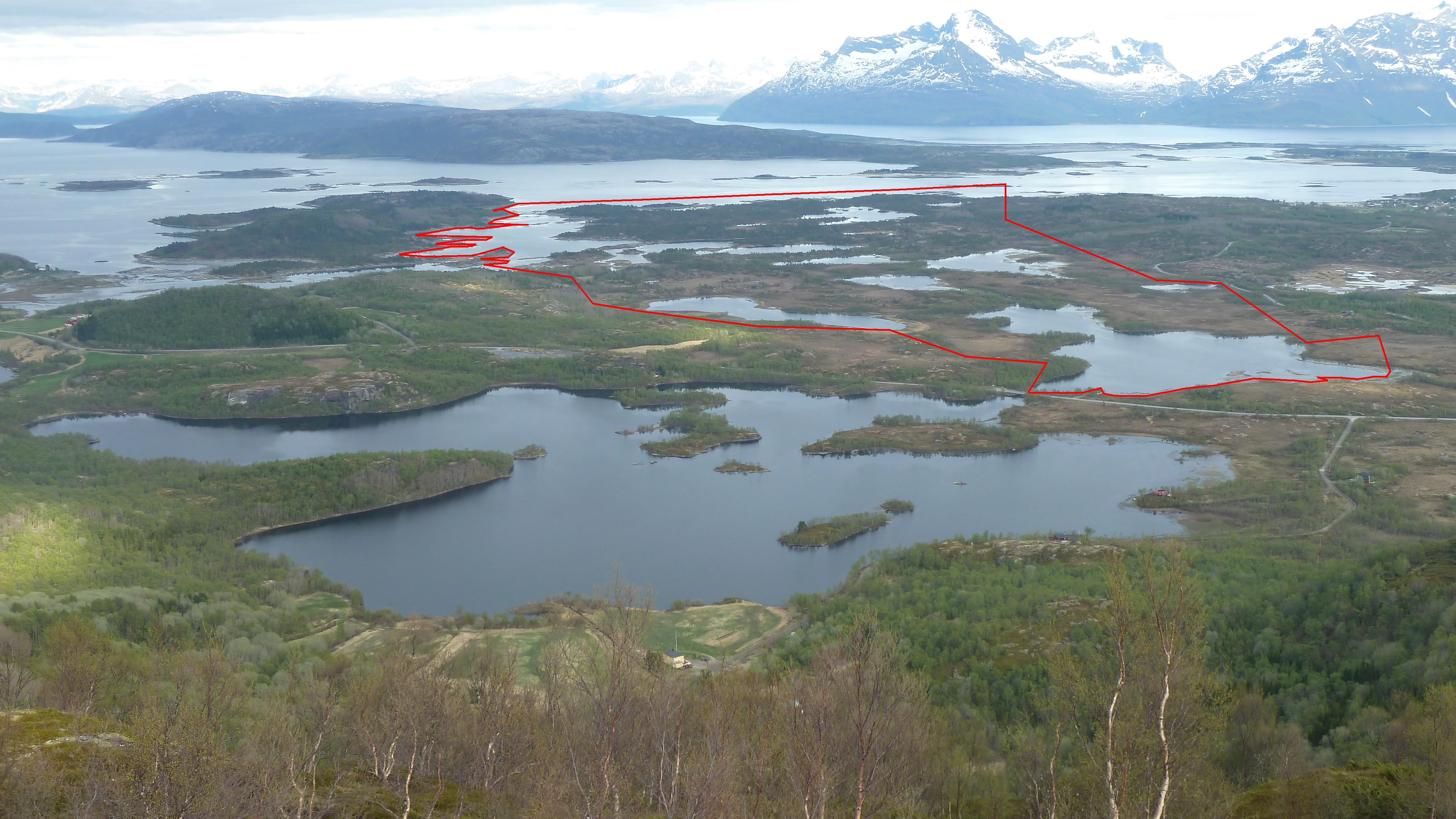 Steinslandsvatnet Nature Reserve, Norway.